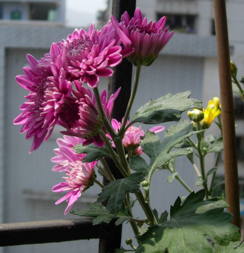 Purple Chrysanthemum